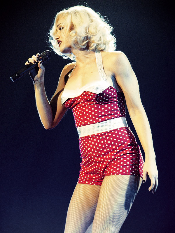 Gwen Stefani performing "The Real Thing" in Duluth, Georgia, United Statesluxurious